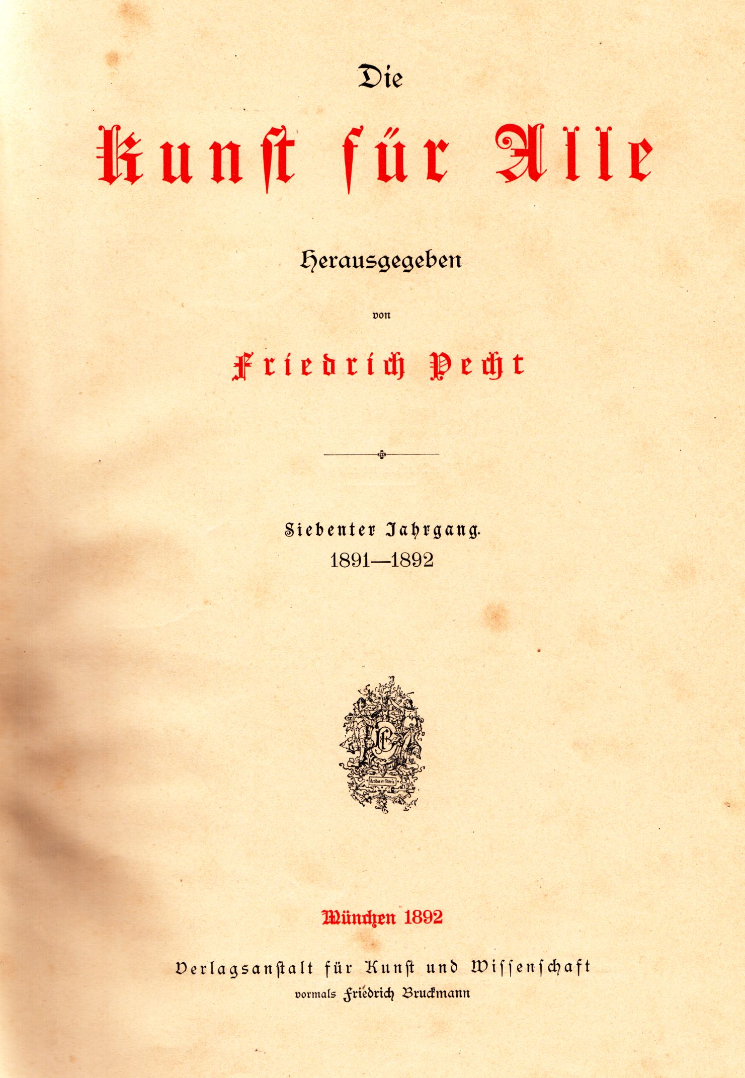 Title of the periodical "Die Kunst für Alle"